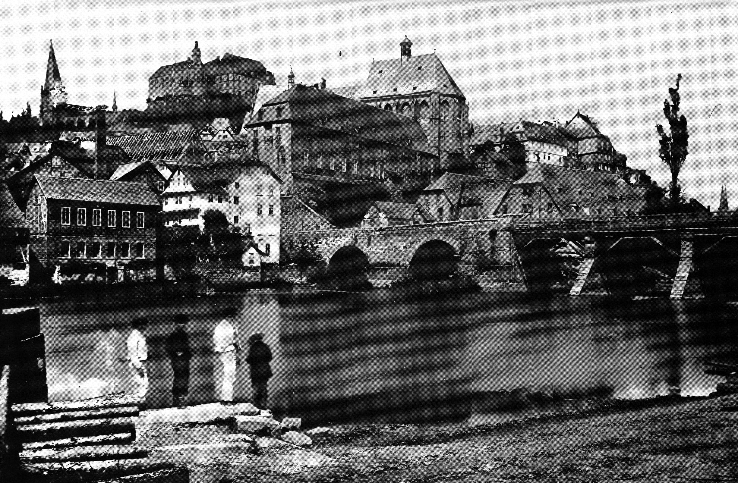 Marburg, Germany The Lahn river bridge, former monastery and castle. Photographer: Ludwig Bickell, 1873.